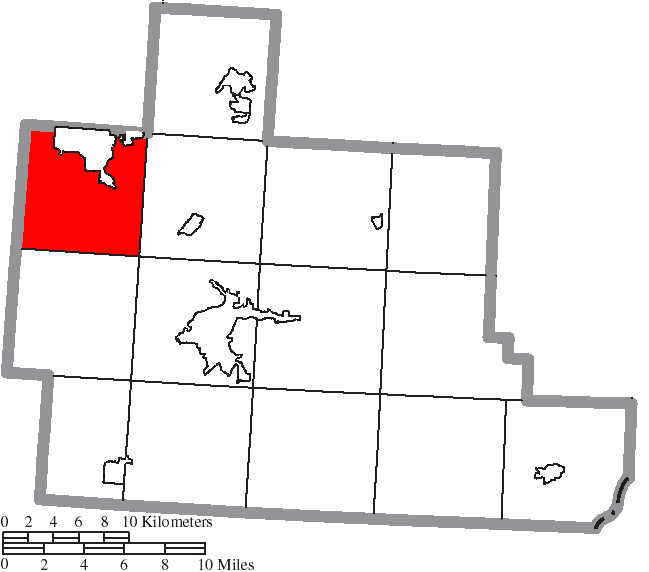 Map of the municipal and township boundaries of Athens County, Ohio, United States, as of the 2000 census, with the location of York Township highlighted. Township borders are shown only in unincorporated areas in order to differentiate incorporated and unincorporated areas more clearly.